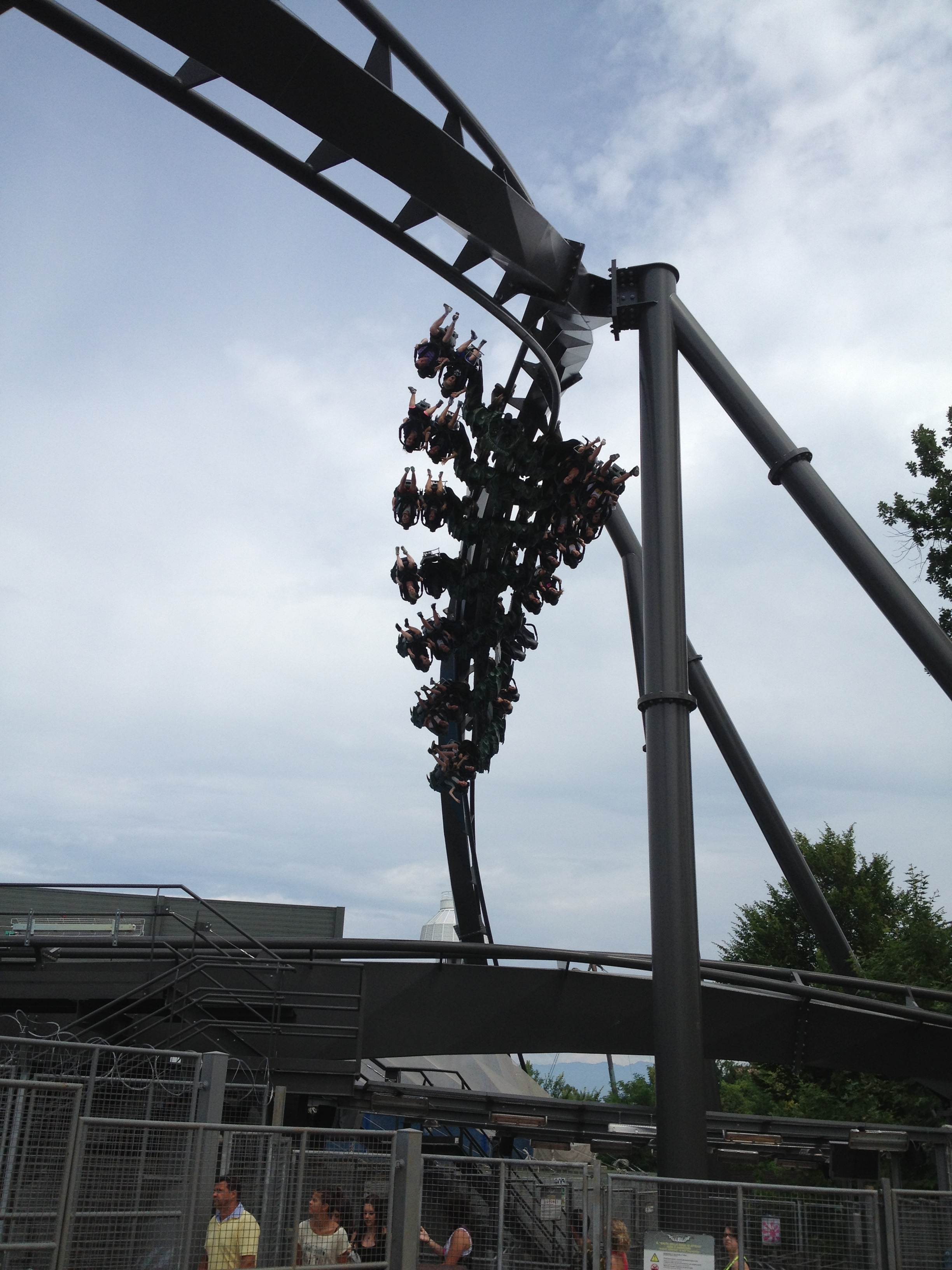 Raptor at Gardaland, Italy